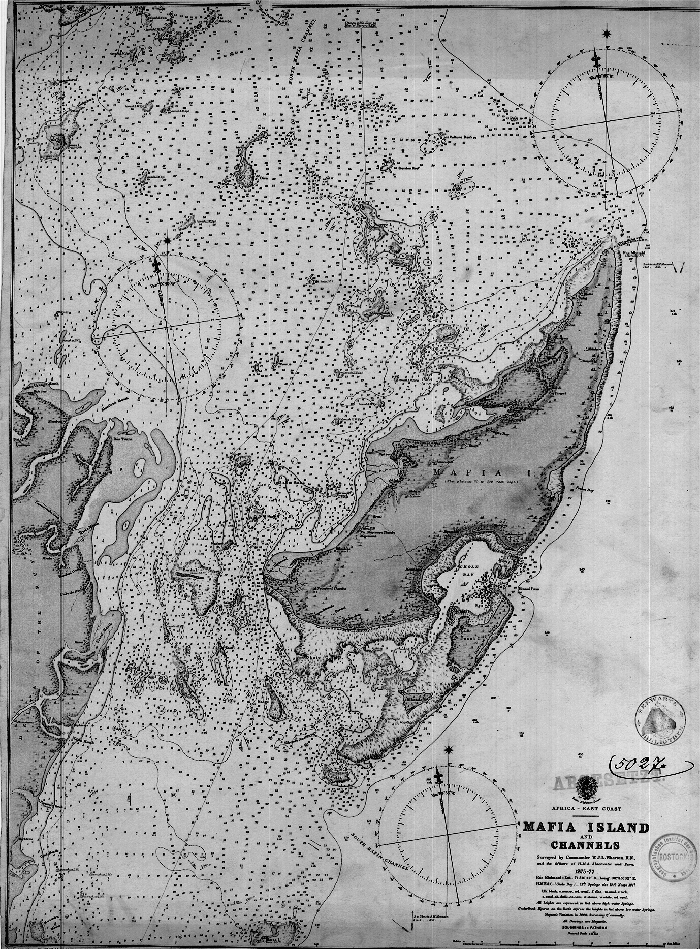 marine chart of Mafia Island, Pwami Region, Tanzania, Indian Ocean *-50 % brightness *+70% contrast